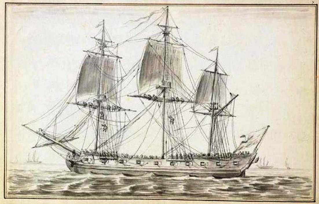 The French privateer frigate Sainte Genevieve in 1745. Dieppe.